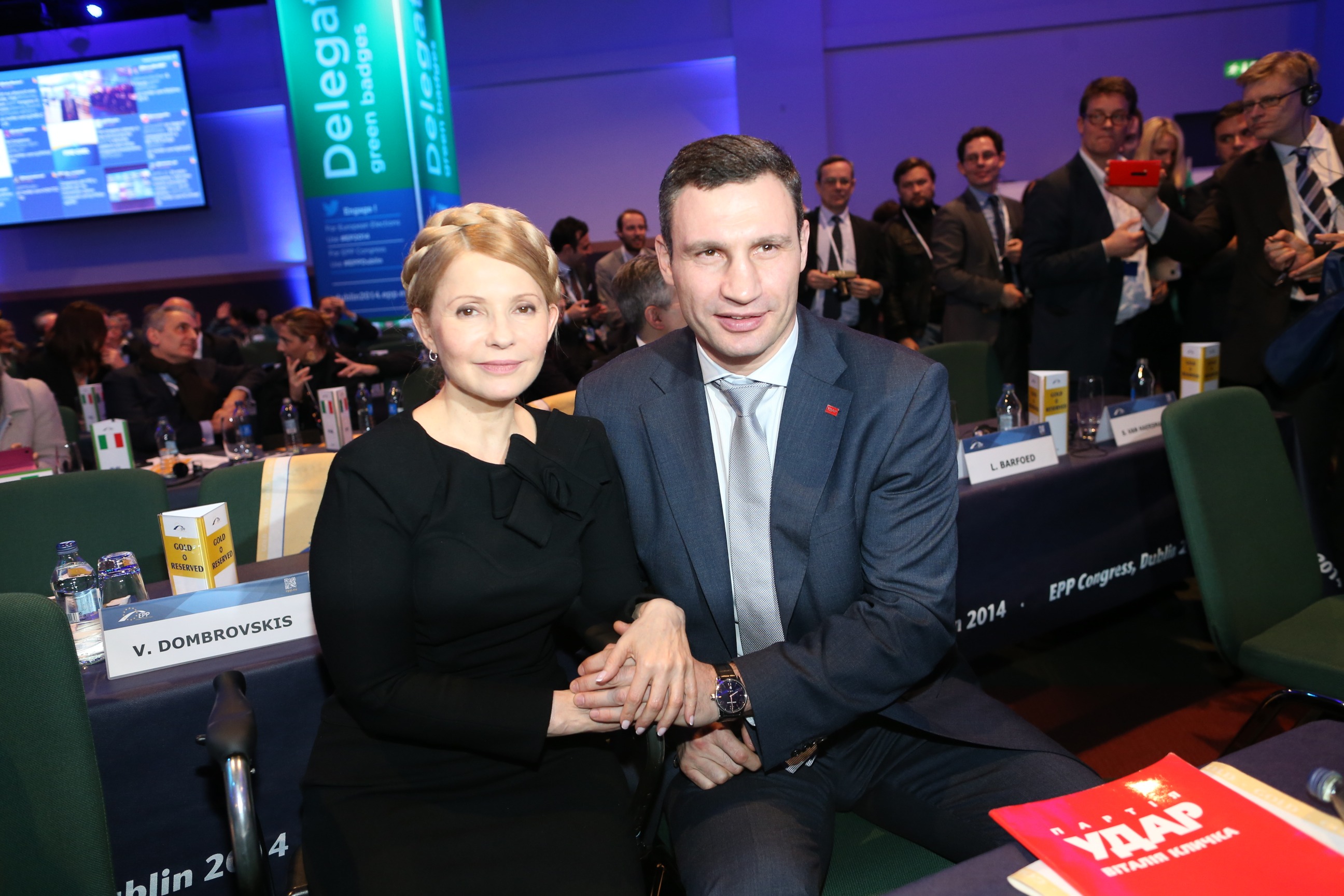 Yulia Tymoshenko and Vitali Klitschko at the European People's Party (EPP) Dublin Congress